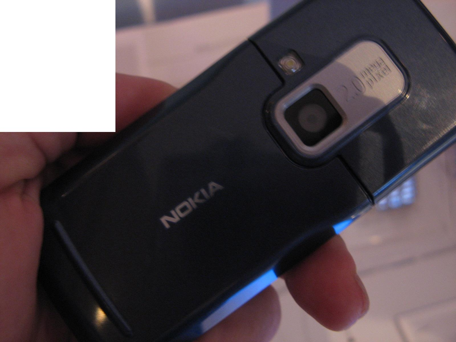 Nokia 6120 Classic with 2 mega pixel camera